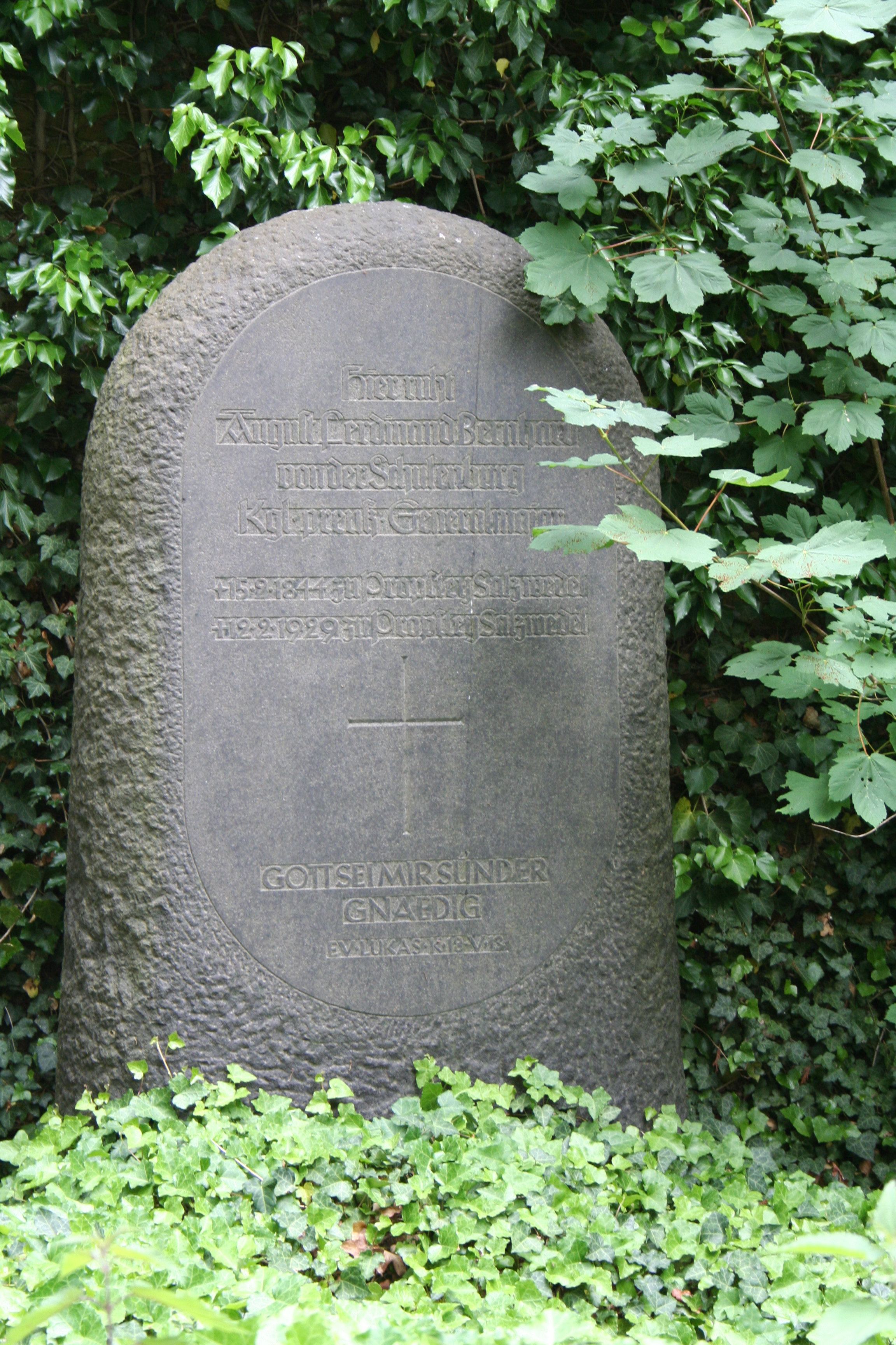 Gravestone of Bernhard von der Schulenburg, Castle Apenburg